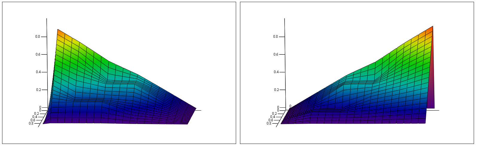 Pair of basis function for multiscale fenite element method. "diffusion coefficient of min grid" / "diffusion coefficient of inclusion" = 0.01